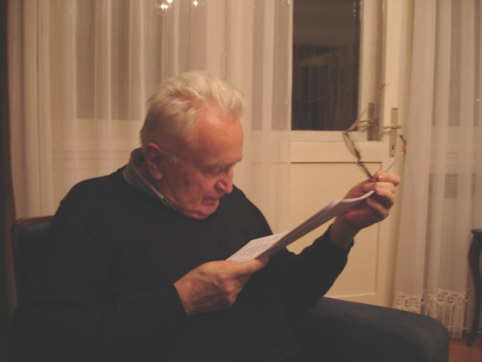 Zlatko Crnković (Croatian writer and translater)